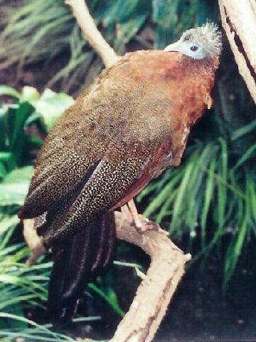 Description: Great Argus - Source: own work - Location: Bronx Zoo, New York - Author: self, User:Stavenn